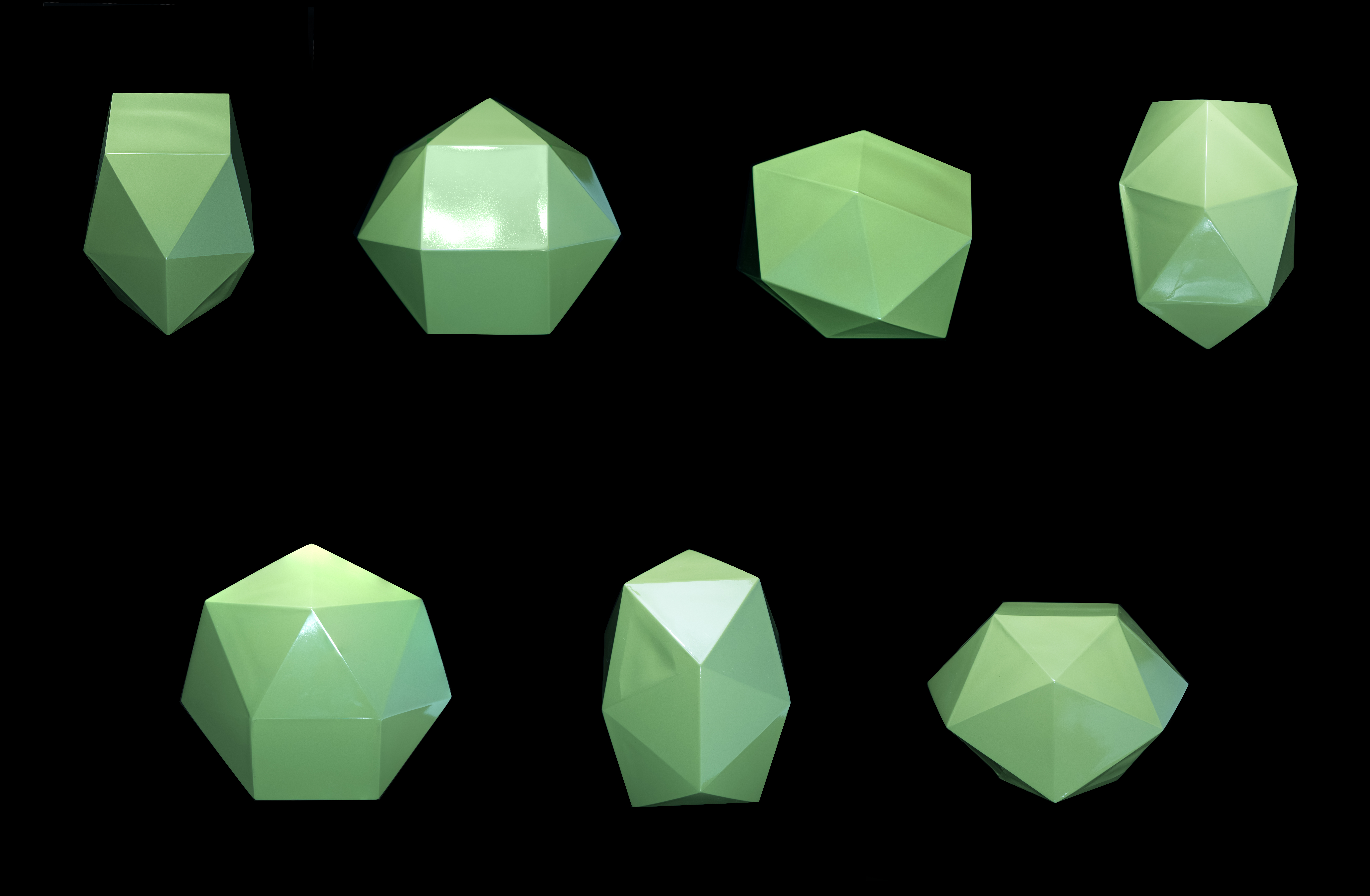 Different views of the hebesphenomegacorona, object is part of the Matemateca (IME/USP) collection.